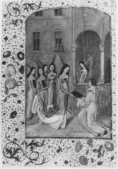 'The scribe presenting his work to Margaret of Austria. Friedrich-SchillerUniversitatsbibliothek, Jena. Ms. El. f. 85, 13 V